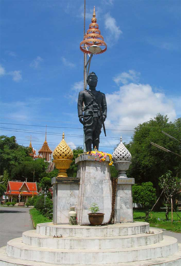 Statue of Phrajao U-Thong (founder of Ayutthaya) in Amphoe U-Thong, Suphanburi province, Thailand